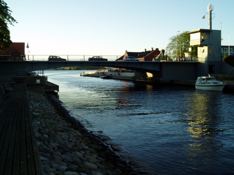 Bridge Moss, Norway.